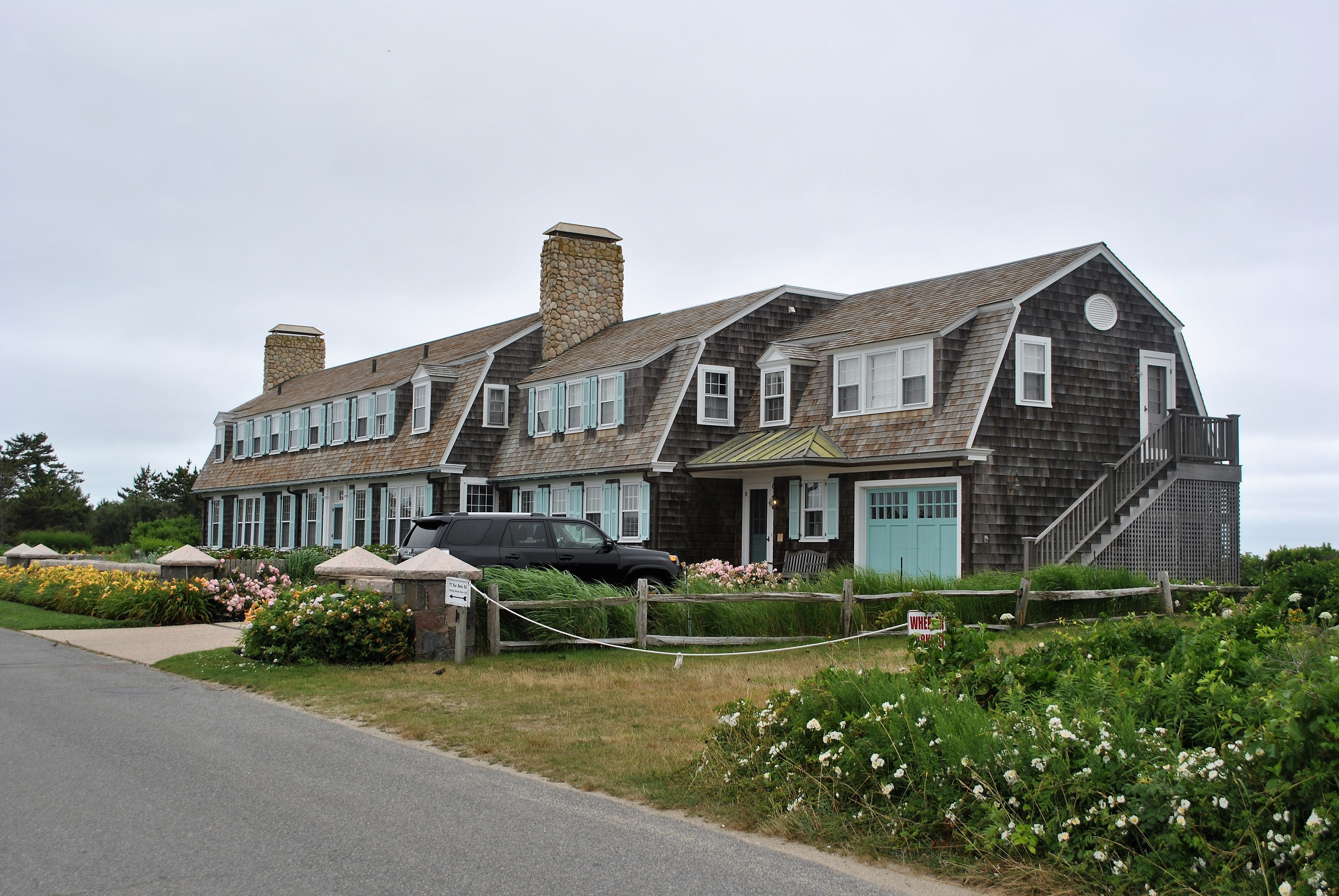 Image originally published in Queer Places: Retracing the Steps of LGBTQ people around the World Authored by Elisa Rolle